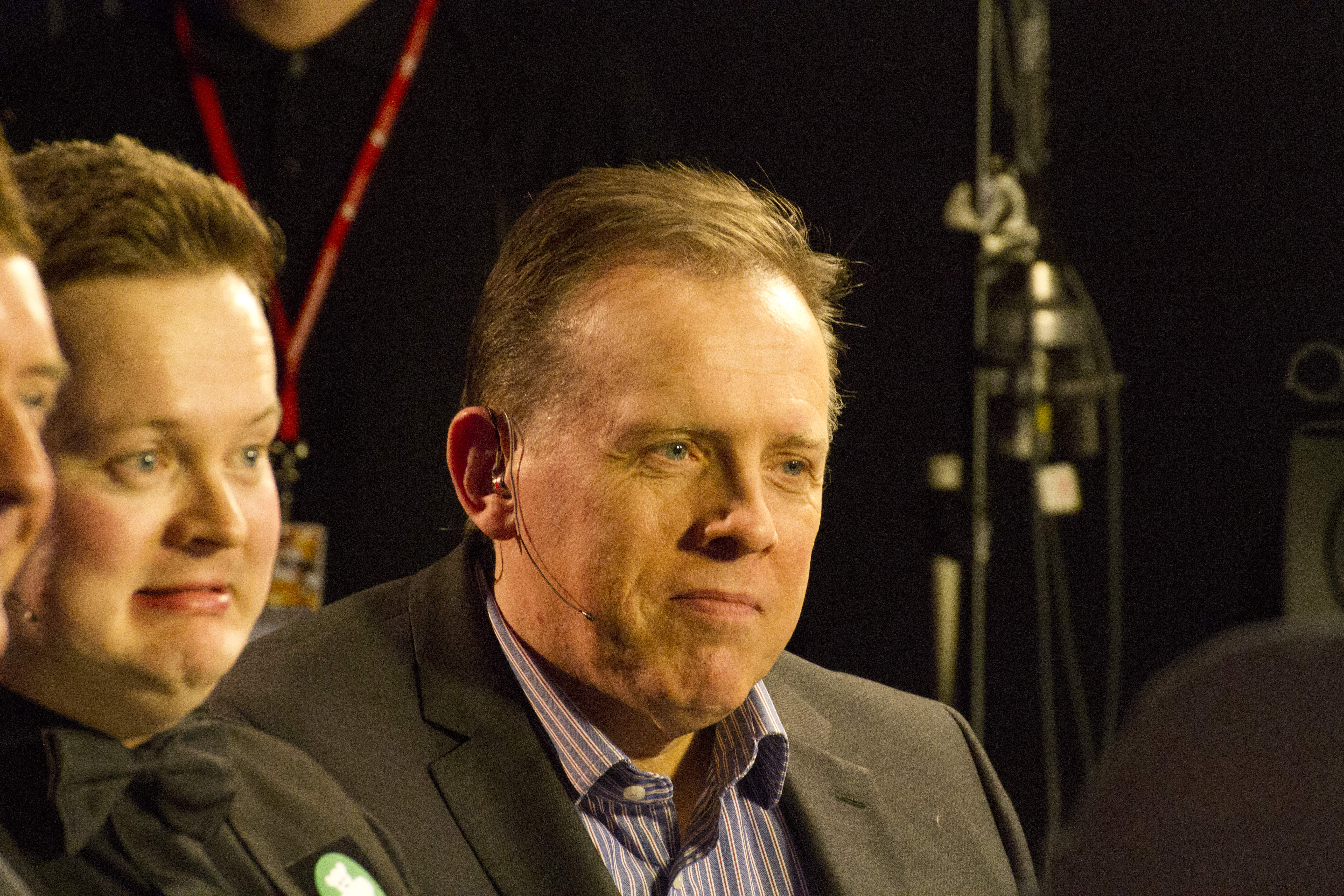 Miscellaneous photos of the Venue, Interviews, TV-Shows etc. Eurosport-UK commentatores Neal Fould and Jimmy White in an interview with Shaun Murphy after his victory against Mark Allen.